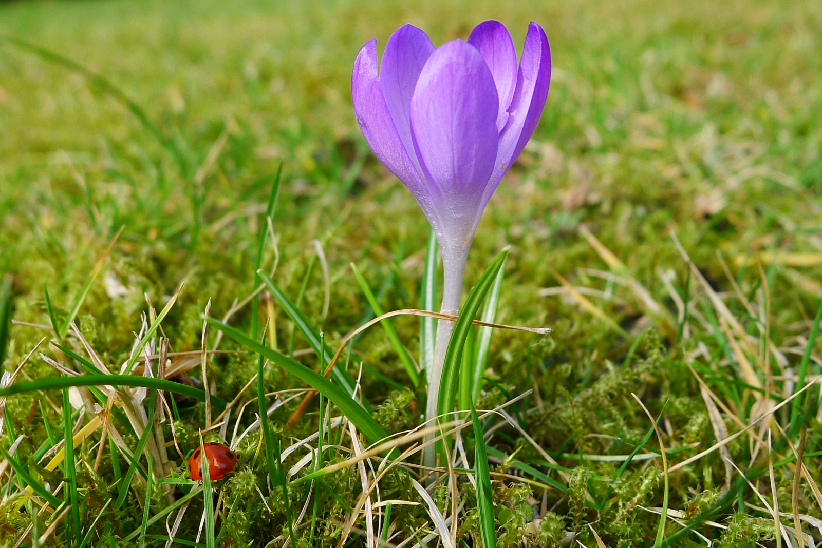 Crocus and a ladybird in the moss